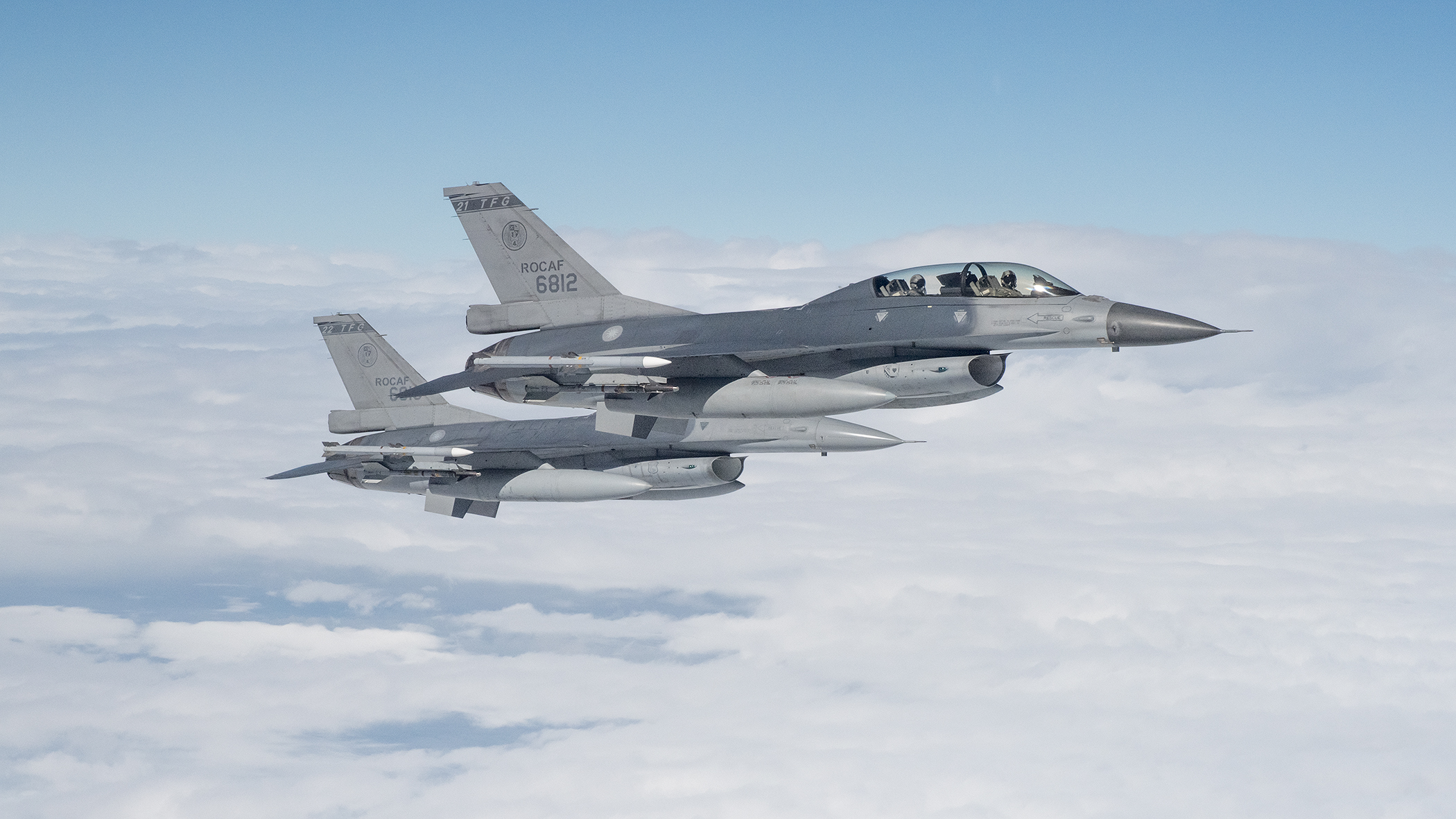 授權方式及範圍：中華民國總統府│政府網站資料開放宣告 Authorization Method & Scope: Office of the President, Republic of China (Taiwan) | Government Website Open Information Announcement